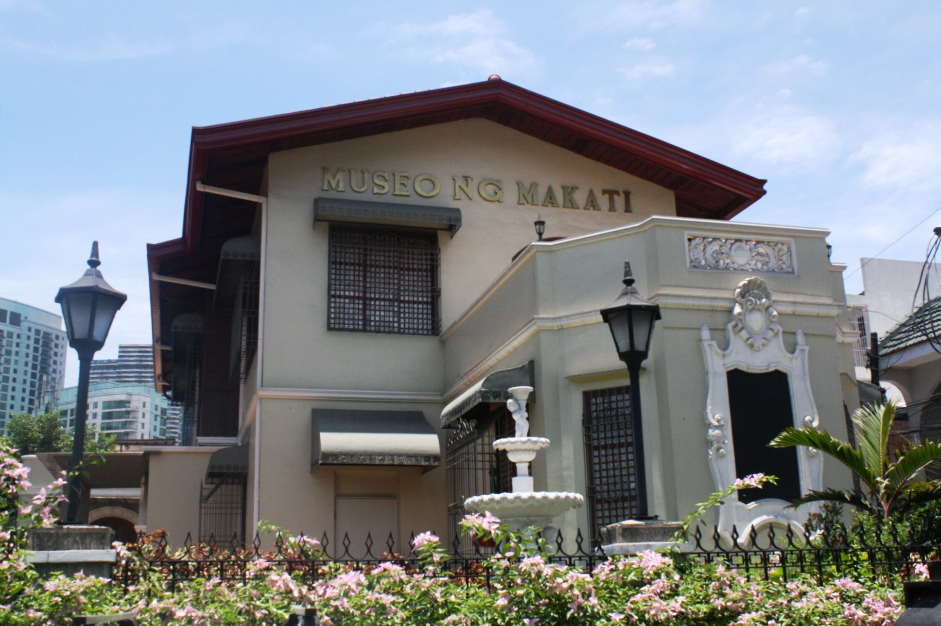 The veranda of the Museum.